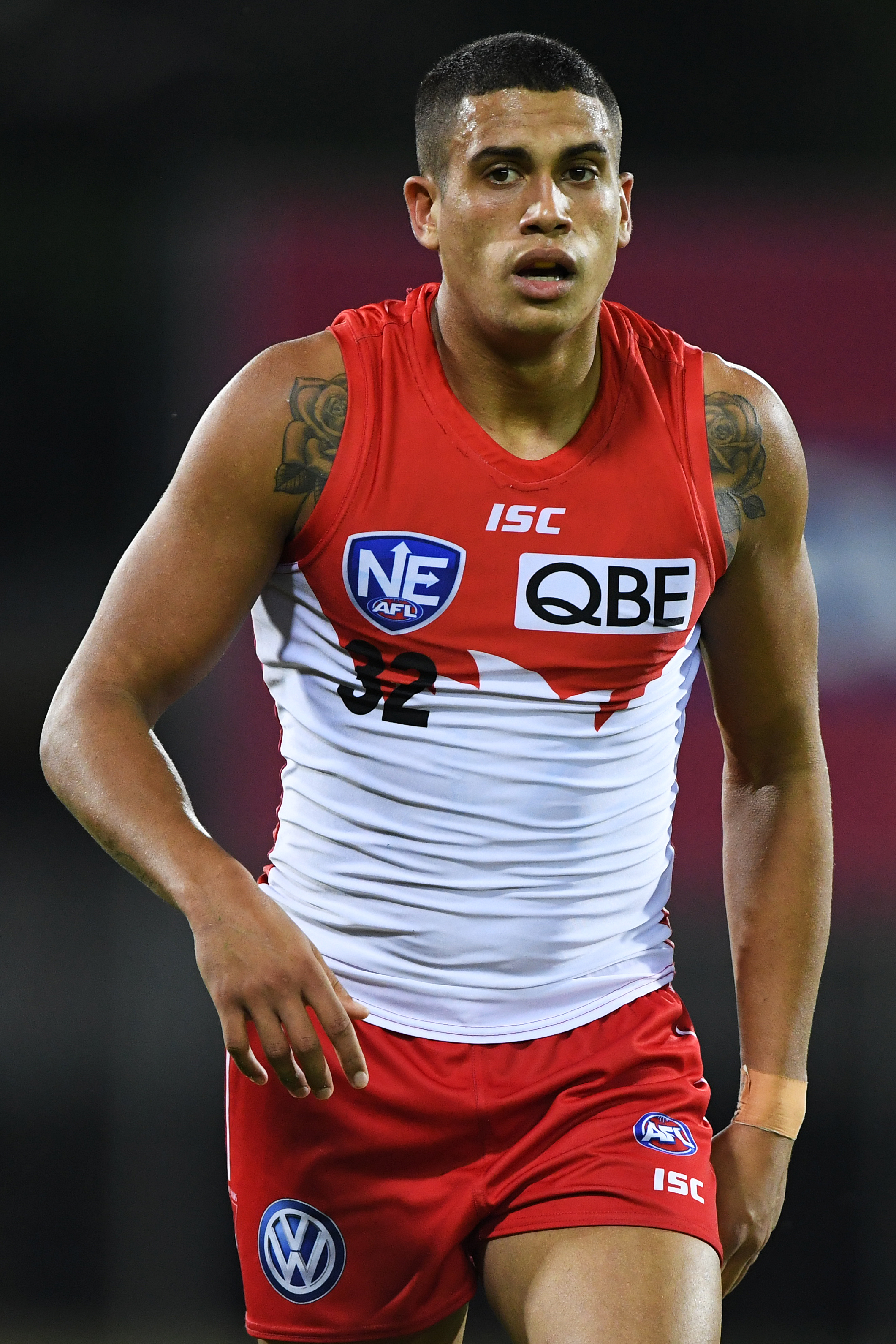 James Bell of Sydney during the 2019 NEAFL round 14 match between NT Thunder and Sydney at TIO Stadium on Saturday, 6 July 2019 in Darwin, Northern Territory.